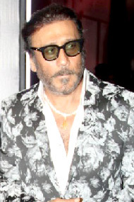 Tiger Shroff & Jackie Shroff at the GQ Best Dressed Awards 2017 on June 4, 2017.